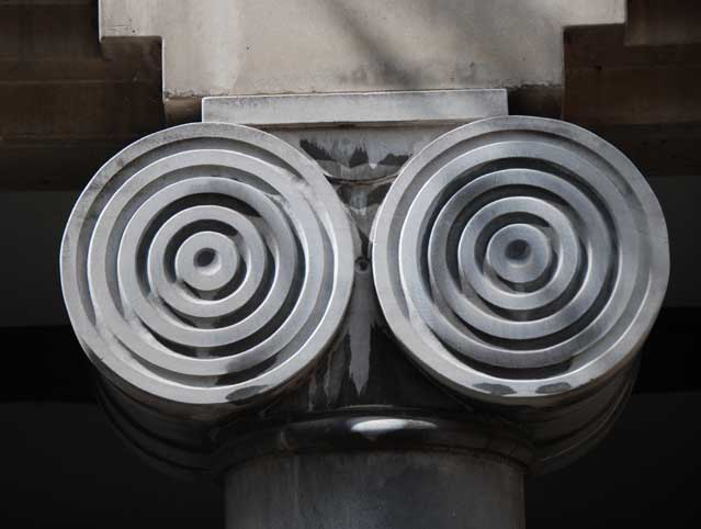 Modern Ionic capital in Liège Limburgs: Modern Ionisch kapiteel in Luuk